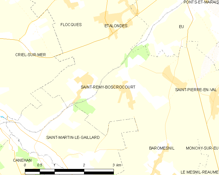 Map of French municipality Saint-Rémy-Boscrocourt